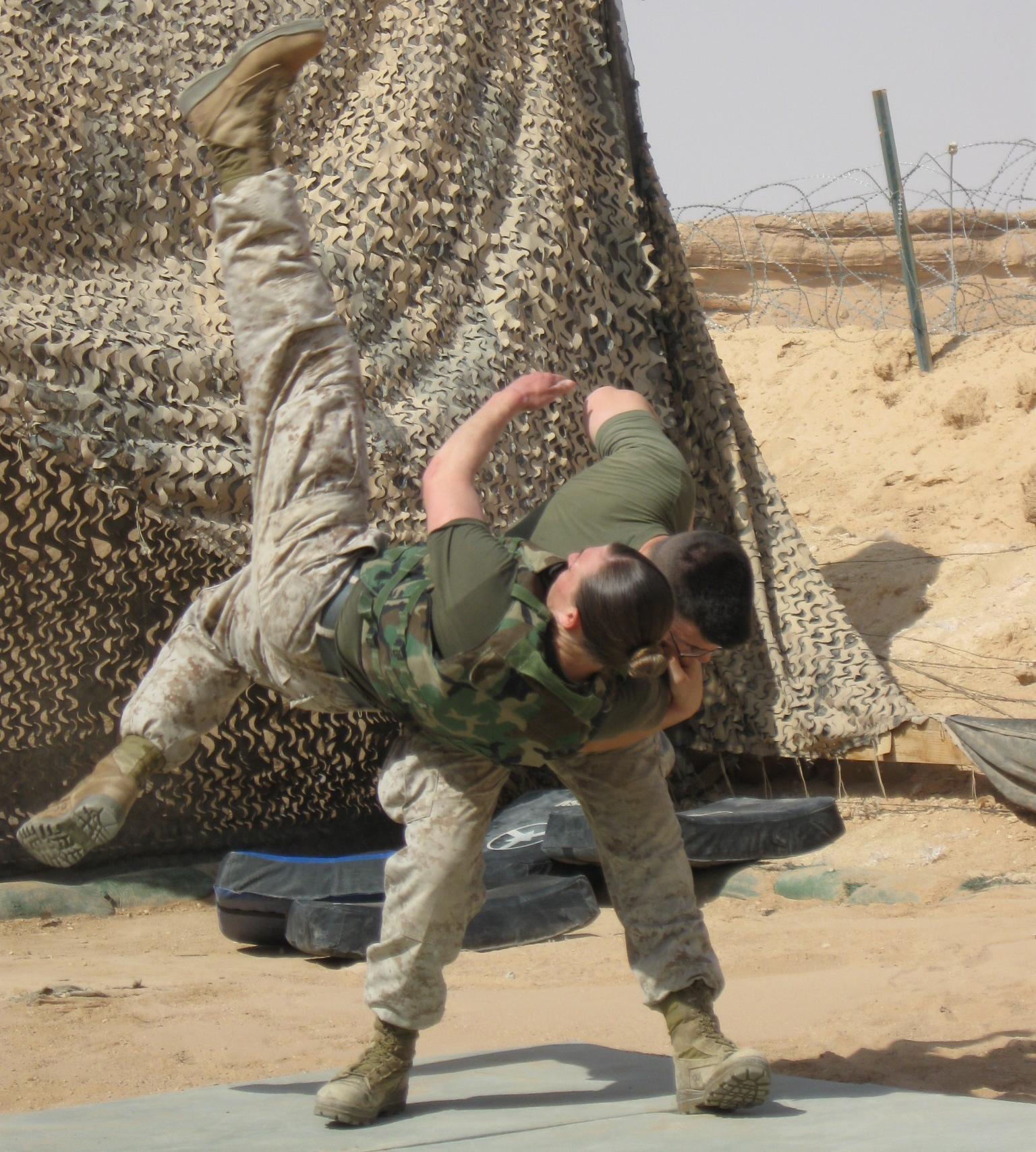 Two Marines from 2nd Marine Aircraft Wing (Fwd) practice Marine Corps Martial Arts Program at Al Asad, Iraq. Here, Corporal Robert Lemiszki performs the shoulder throw technique on Corporal Halie Kennie.